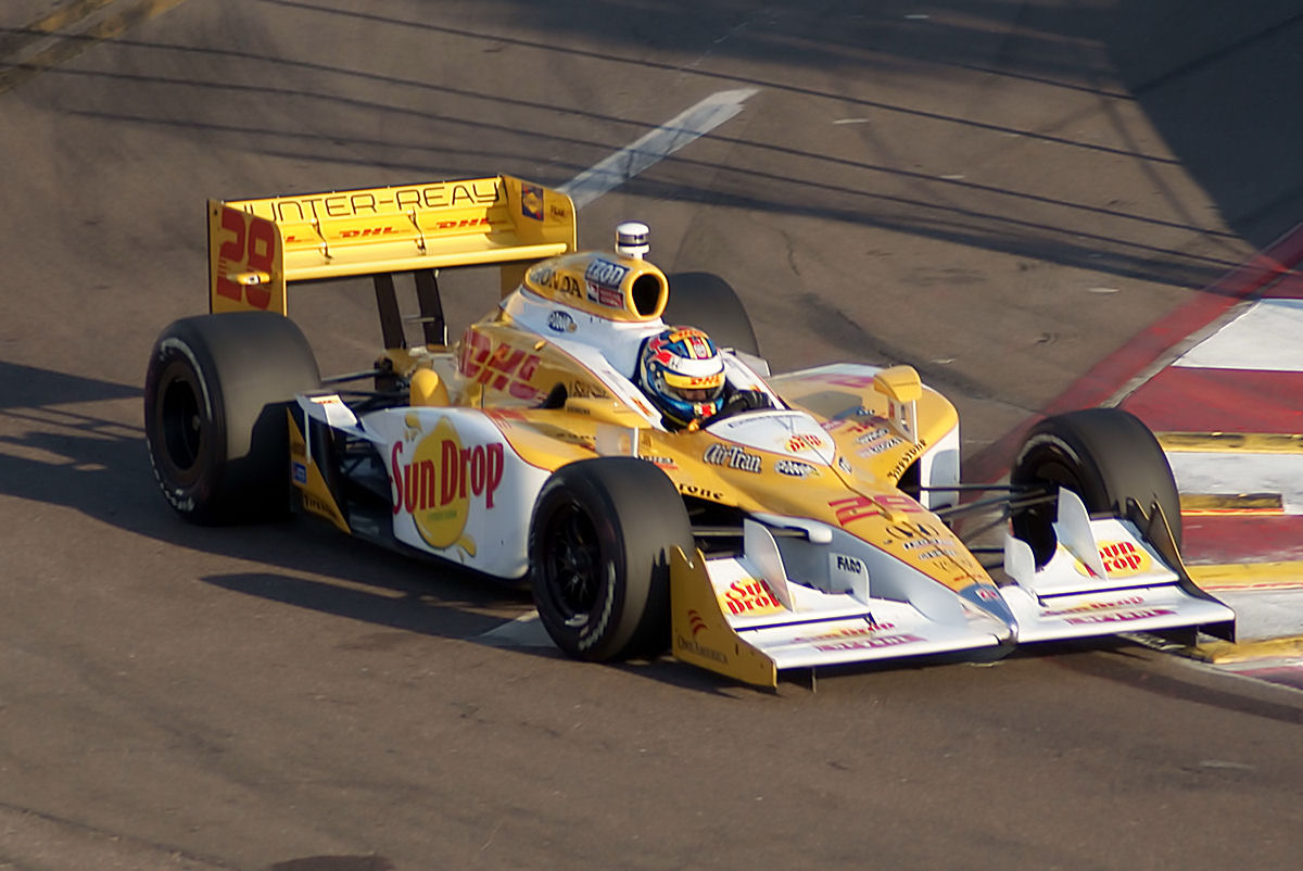 Ryan Hunter-Reay driving the Dallara IR5 for Andretti Autosport at the 2011 St. Petersburg Grand Prix. Round 1 of the 2011 IndyCar Series.